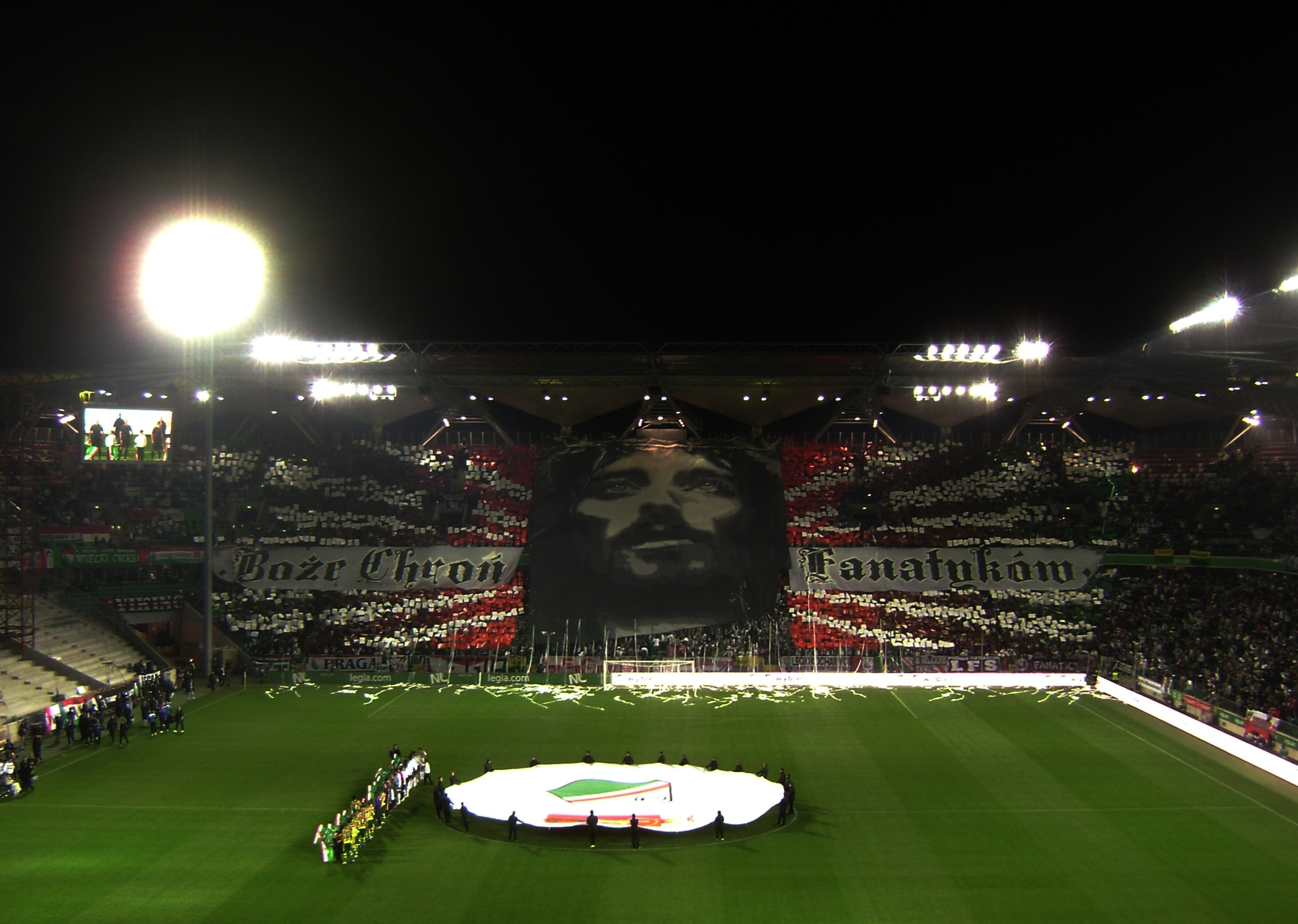 Charity football match Legia - Den Haag